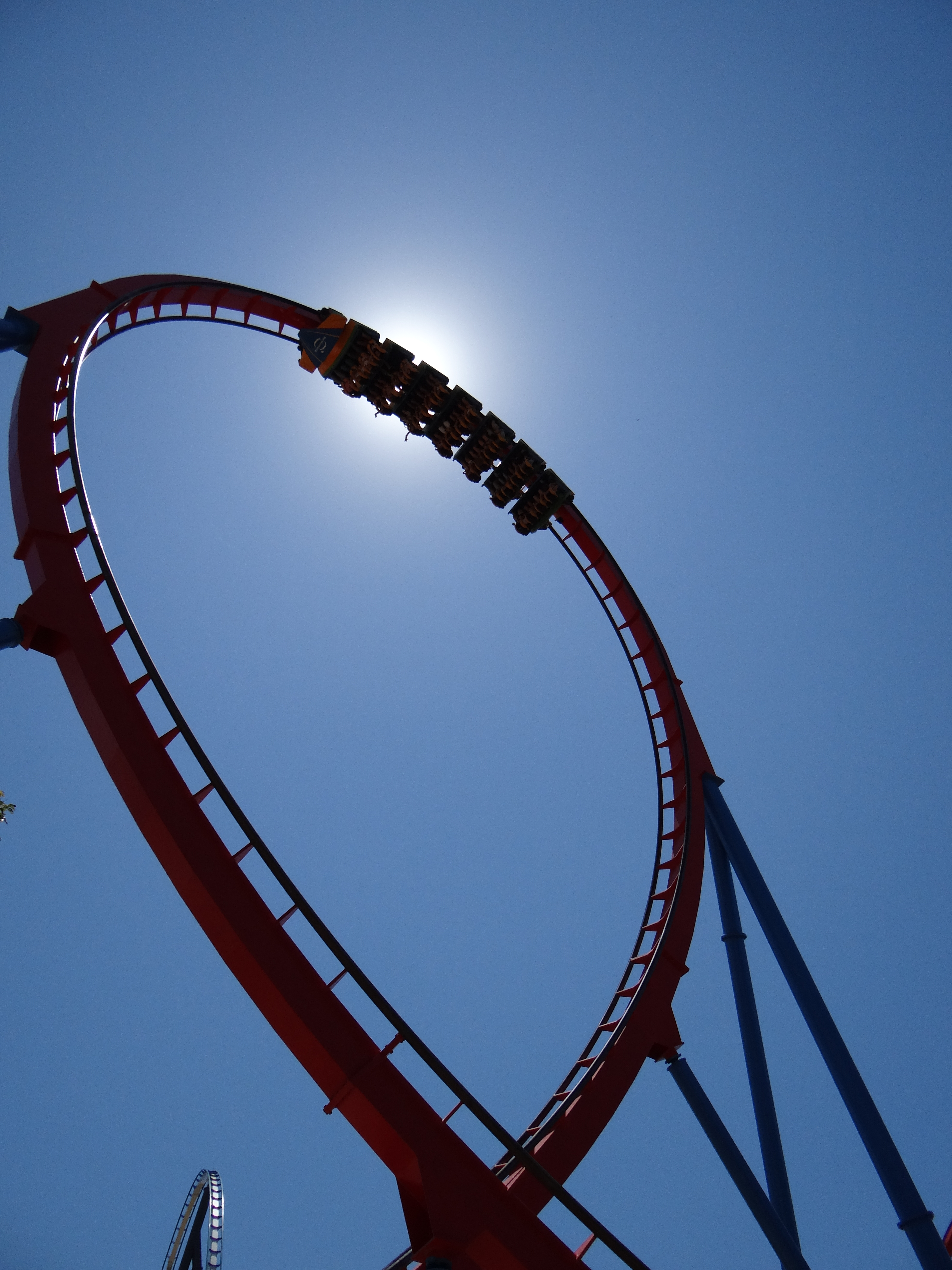 Dragon Khan in the sun